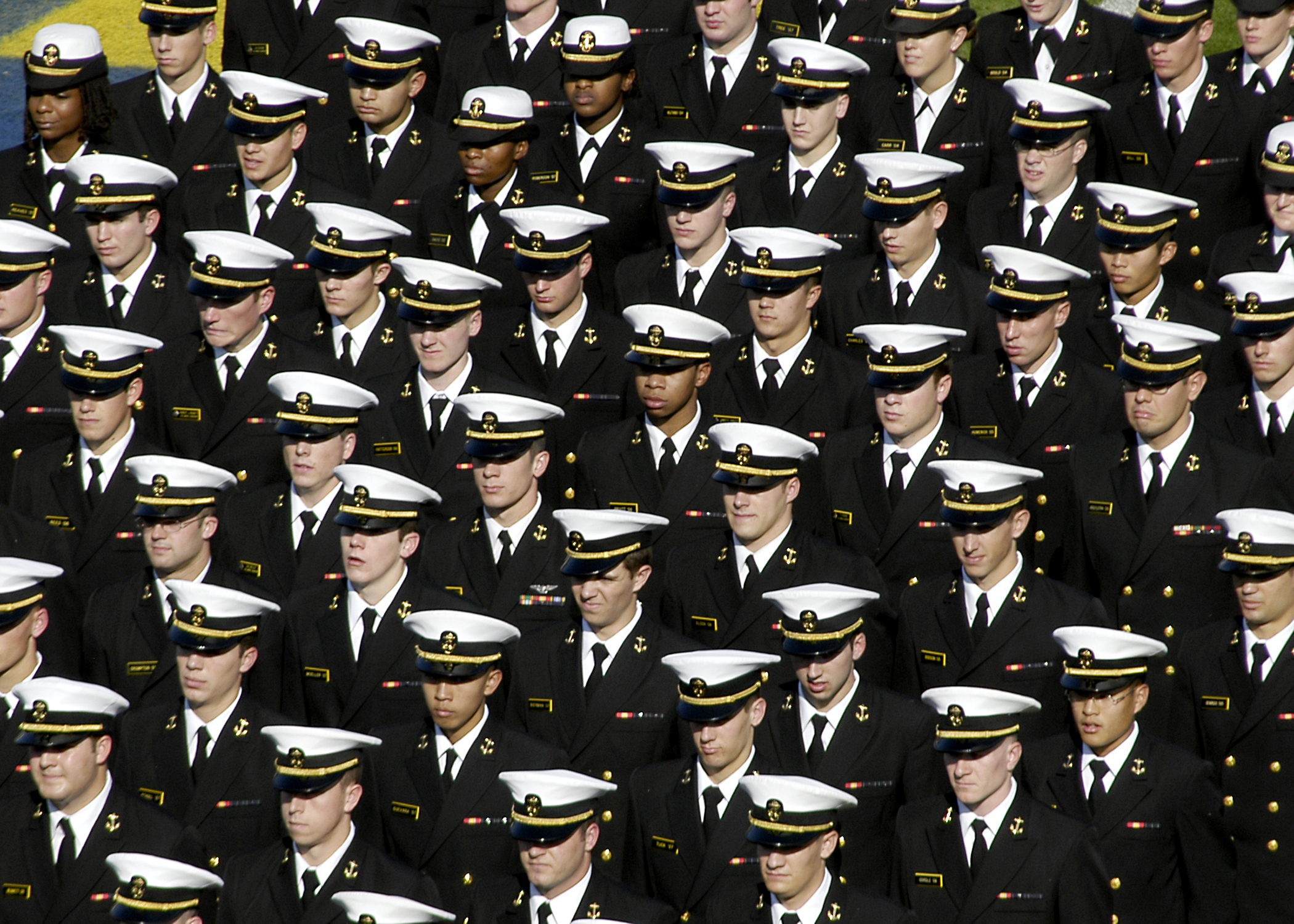 Annapolis, Md. (Nov. 1, 2003) -– The U.S. Naval Academy Brigade of Midshipmen stands in formation during opening ceremonies. Navy marked a 35-17 victory over Tulane. The Midshipmen, ranked first in the nation in rushing offense, gained 357 yards on the ground. Navy (6-3) beat Tulane for the first time since 1999. The Green Wave (3-6) lost for the fifth straight time. U.S. Navy photo by Photographer’s Mate 1st Class Dana Howe. (RELEASED)